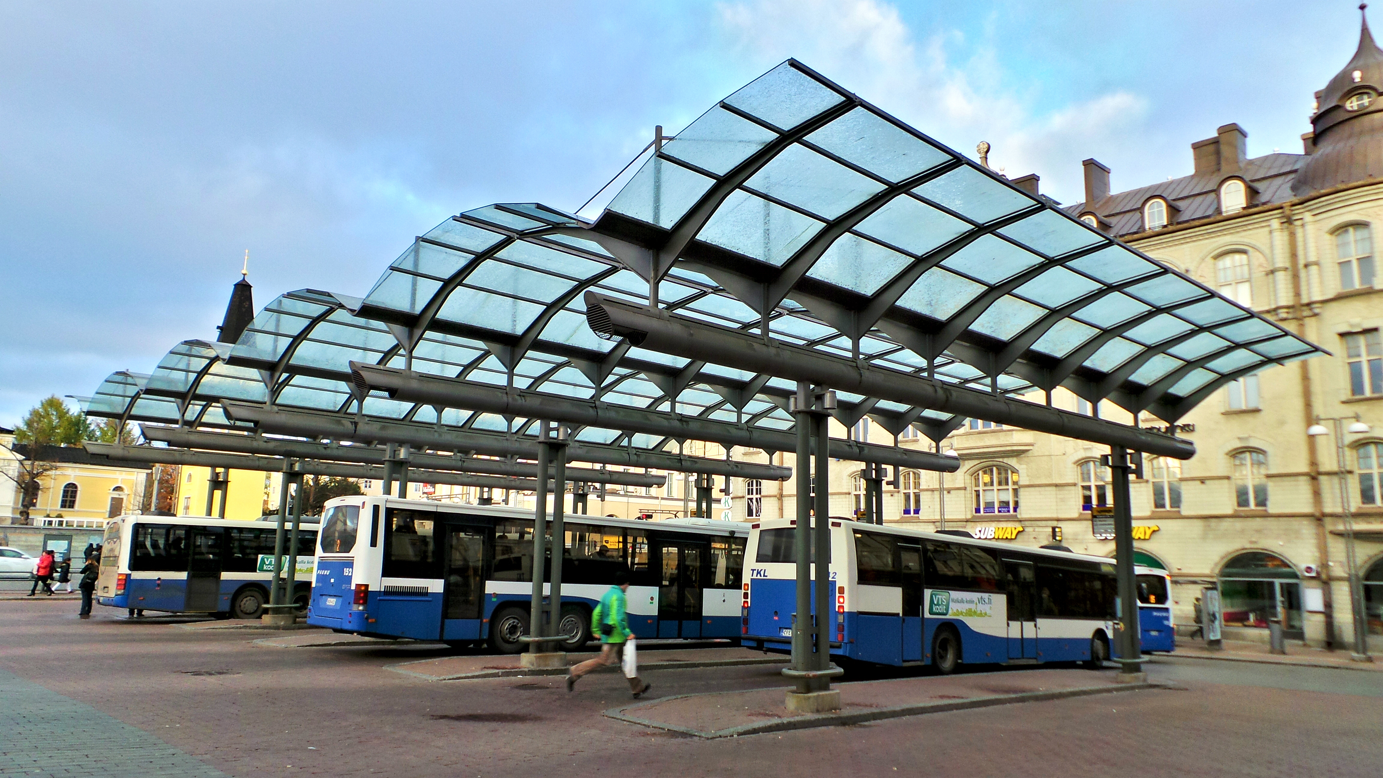 Bus terminals at Central Square in Tampere, Finland